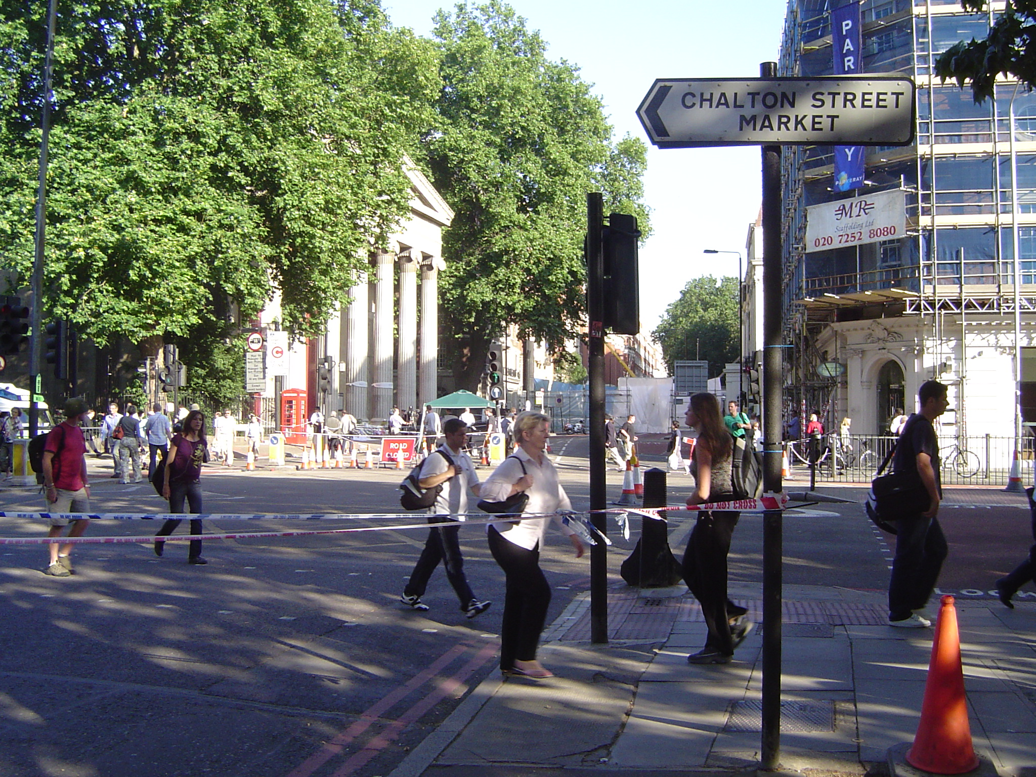 Looking towards Tavistock Square in London, England, approximately one week after the 2005 London bombings.